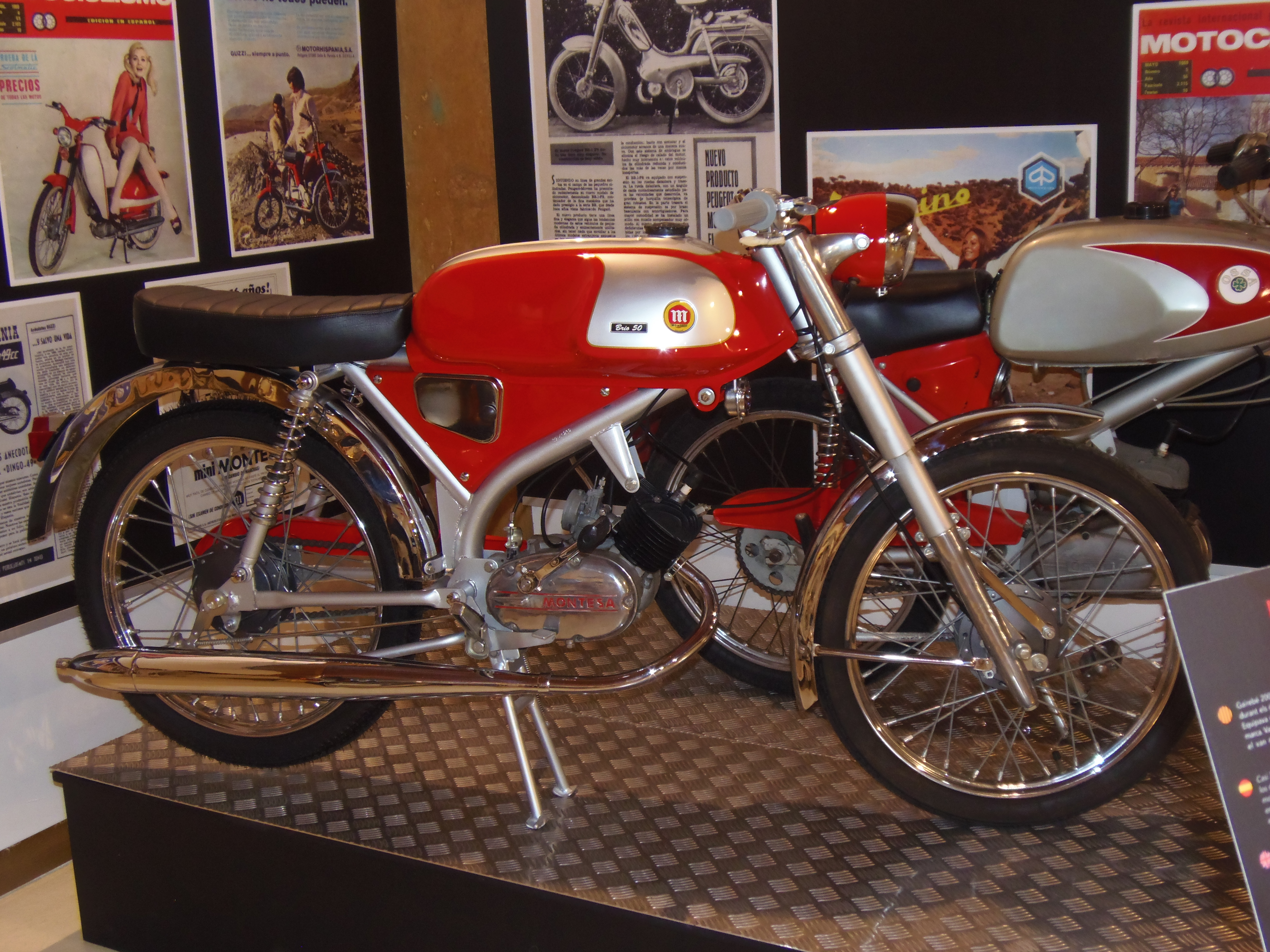 Montesa Brio 50, 1971